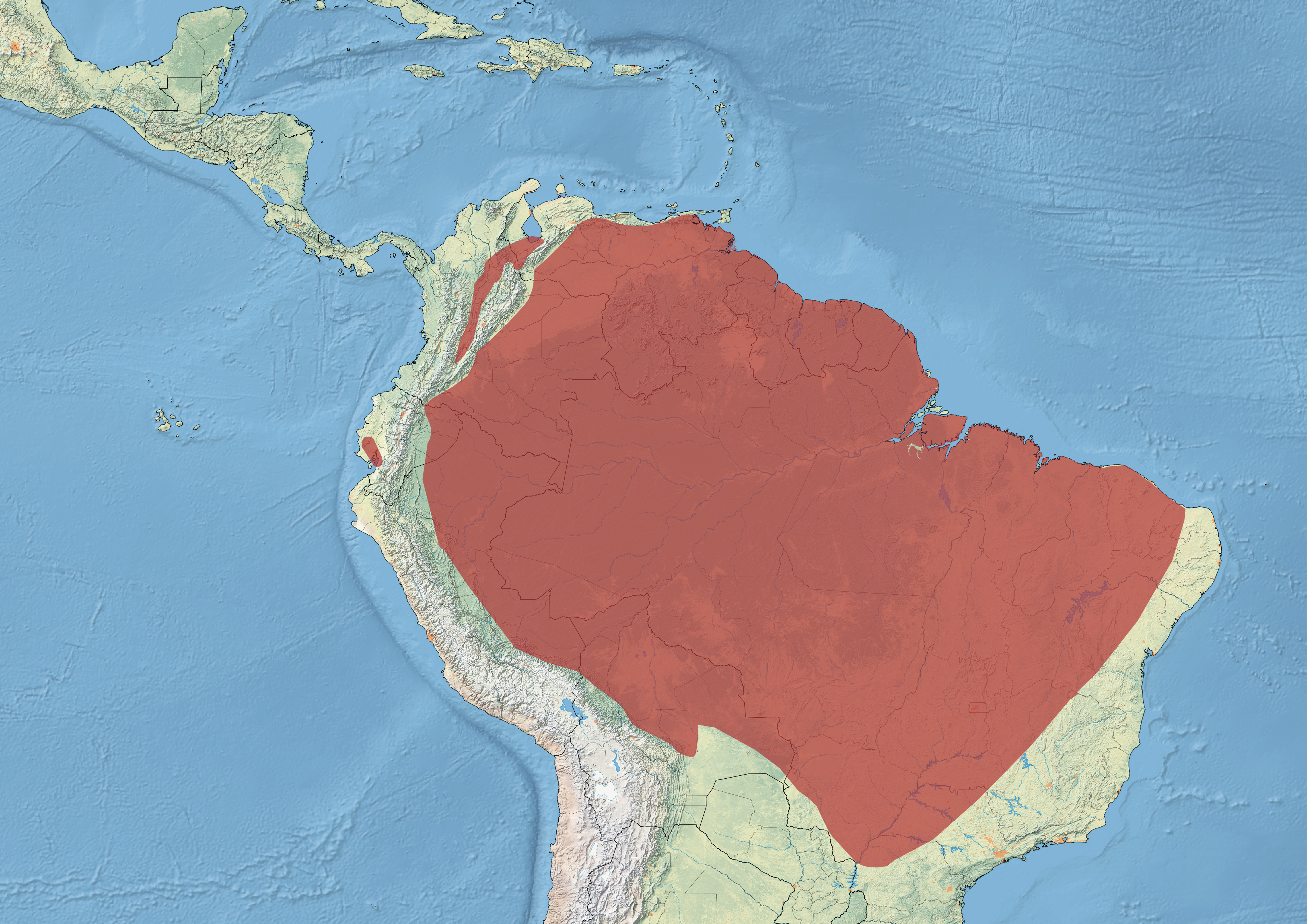 The approximate distribution of the Horned Screamer. According to the IUCN Red List.